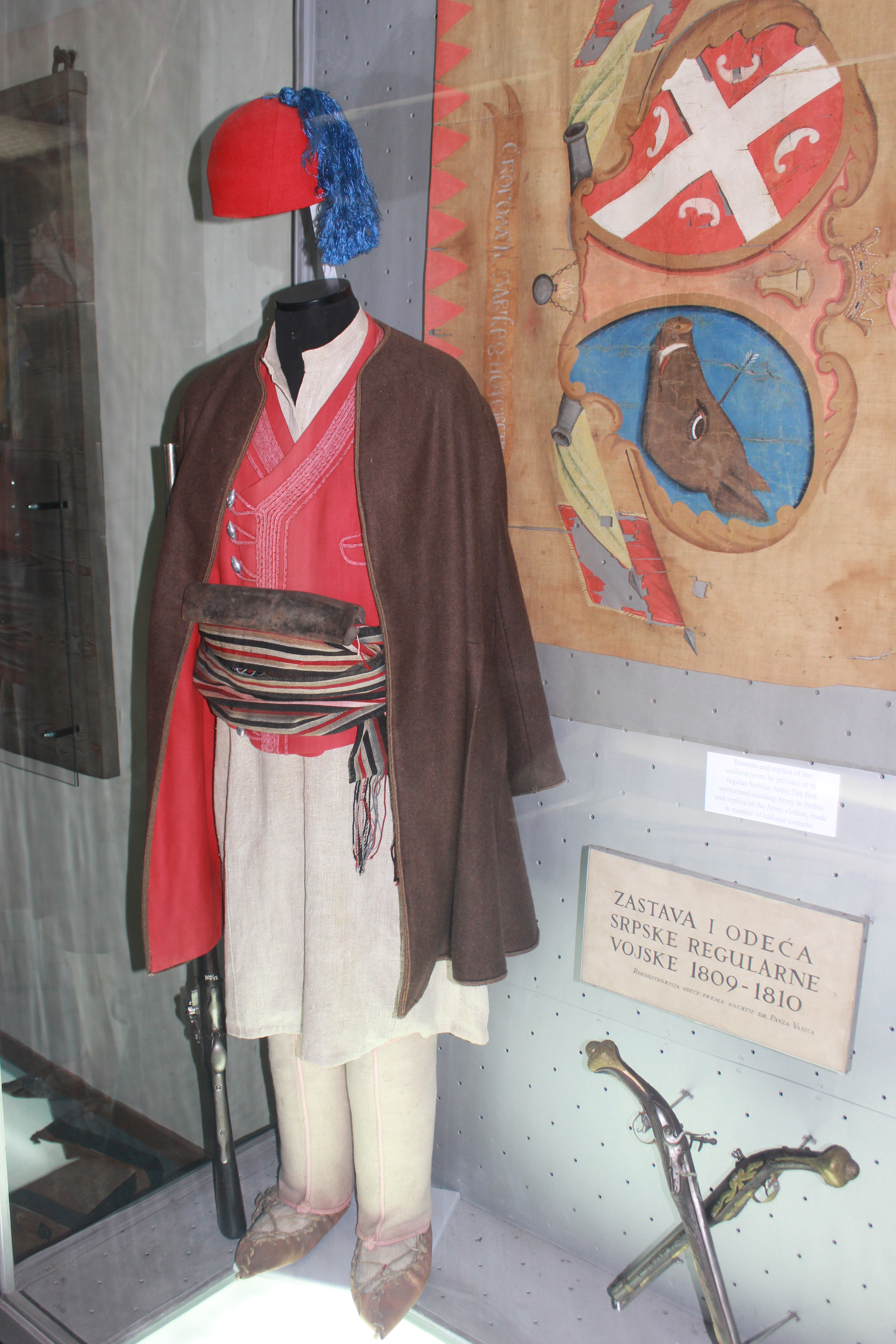 Standard unifrome of Serbian rebel army 1809